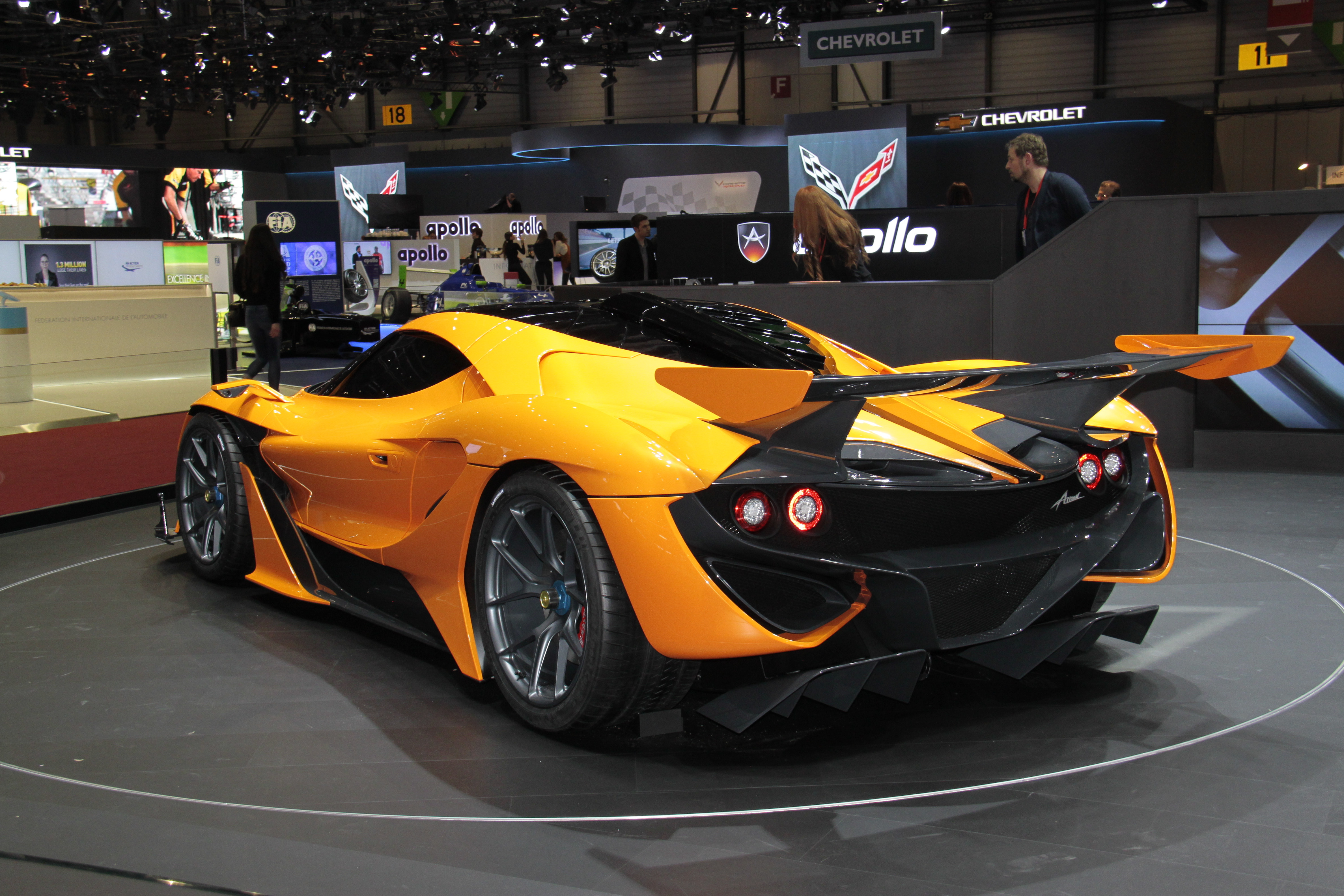 Apollo Arrow at the 2016 Geneva Motor Show